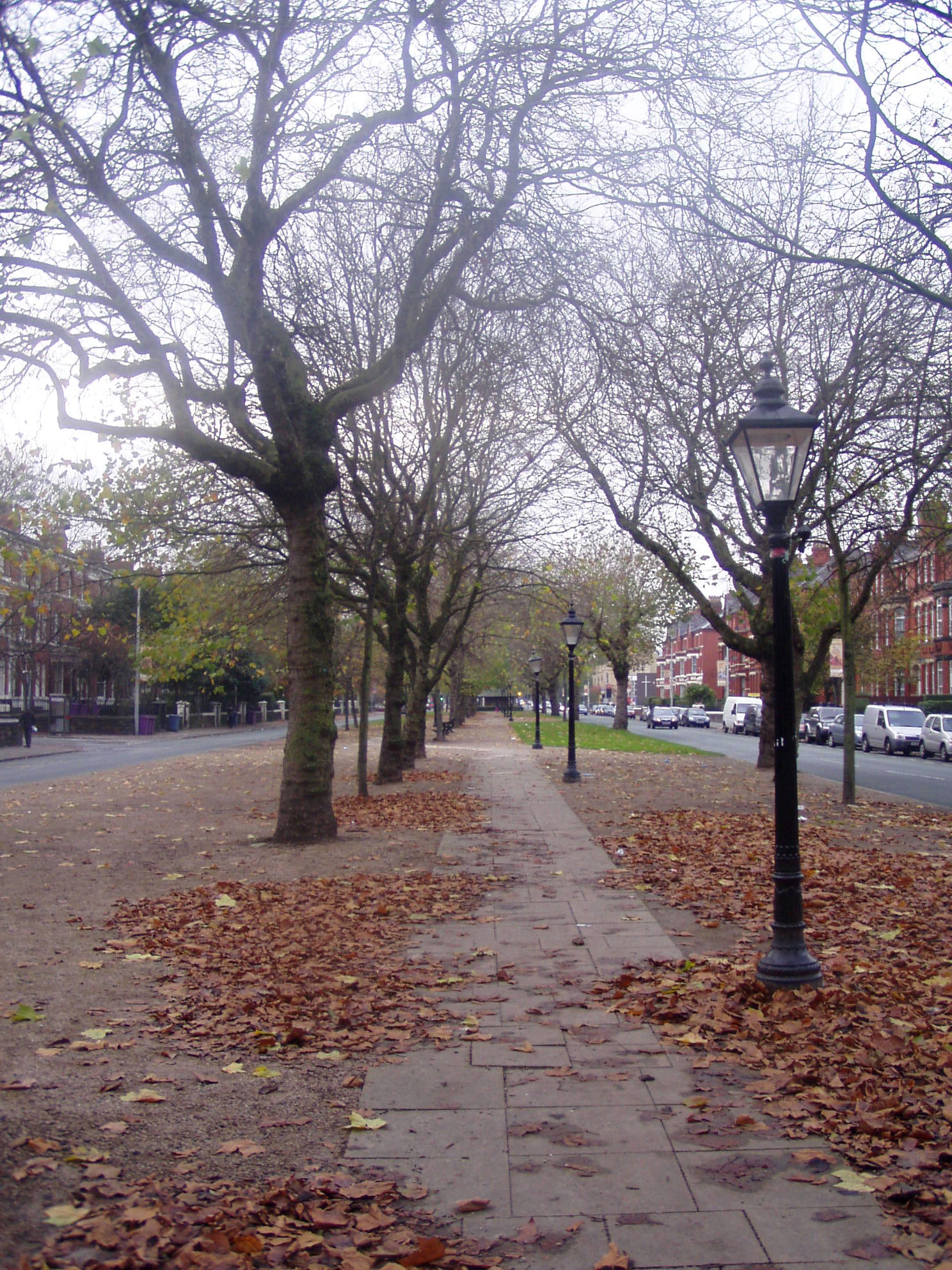 Princes Road, Liverpool